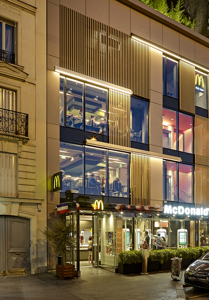 Wood hybrid profile Soleo 6008 (WHS) louvers Paris Bois hybride Geolam